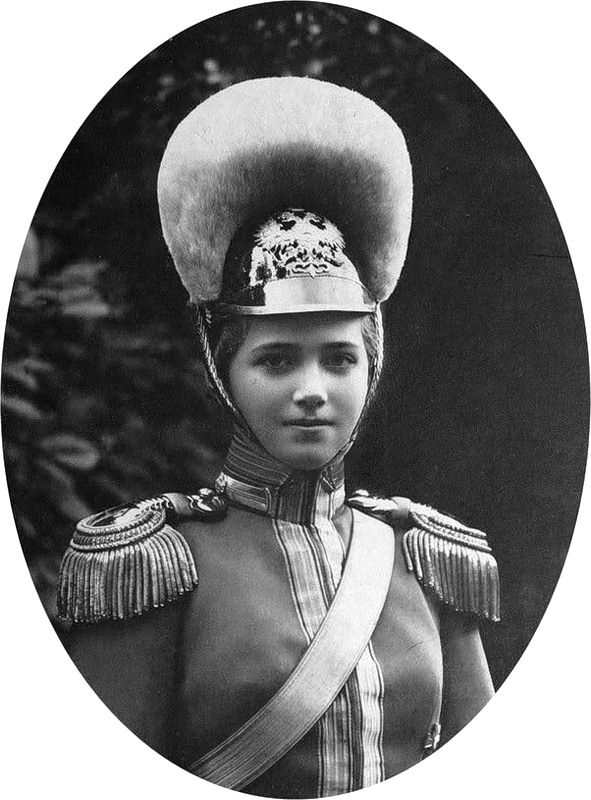 Maria Nikolaevna, Kazansky Dragoon Regiment